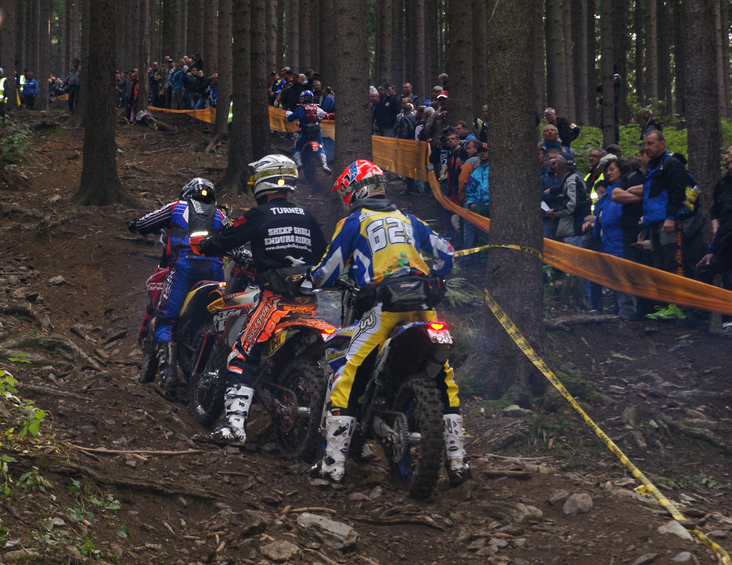 The making of this document was supported by the Community-Budget of Wikimedia Germany. 87. ISDE Steep Hill Hormersdorf